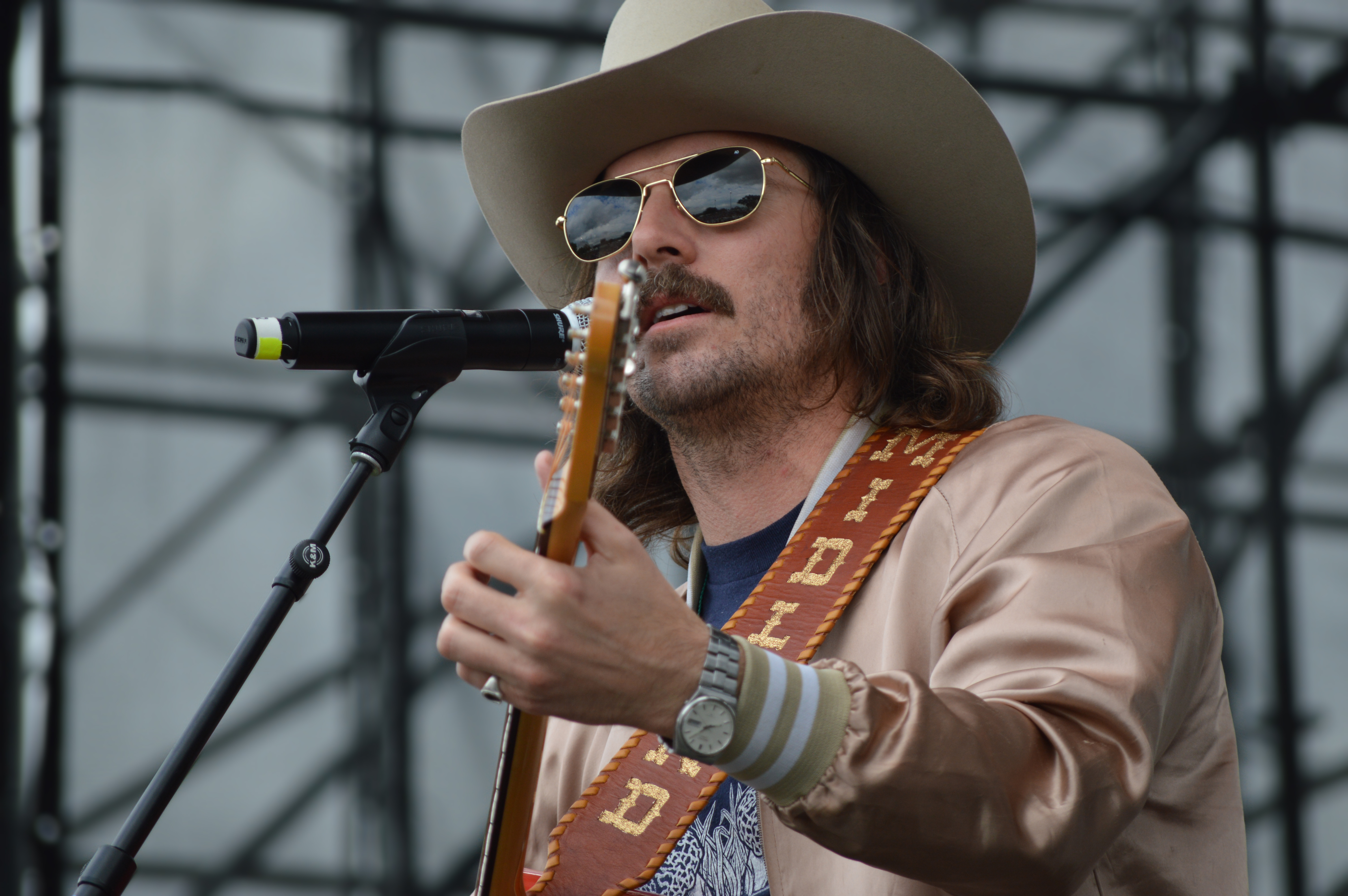 Mark Wystrach performing at the 2018 99.9 KISS Country Chili Cook Off on January 20, 2018 in Pembroke Pines, Florida.